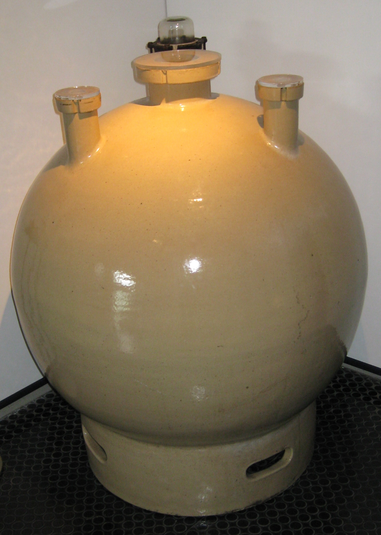 Acid Egg on display at the Catalyst Museum, 2011. A spherical ceramic vessel for the pumping of acid by displacement with compressed air.